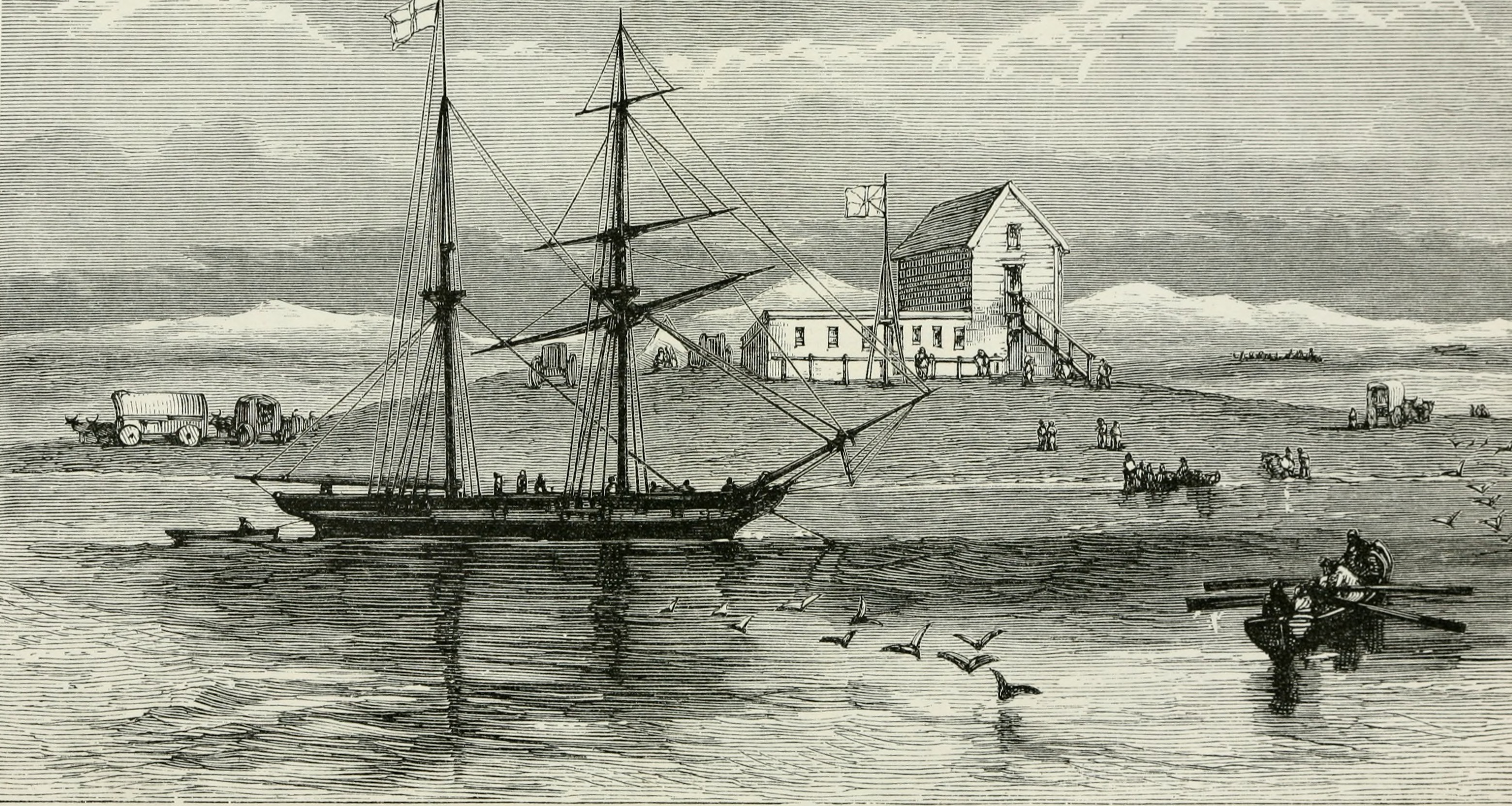 Title: Africa Year: 1878 (1870s) Authors: Johnston, Alexander Keith, 1804-1871 Keane, A. H. (Augustus Henry), 1833-1912 Subjects: Africa -- Description and travel Africa -- Social life and customs Publisher: London : Edward Stanford Text Appearing Before Image: Hi,! i- s ; w i Text Appearing After Image: XAMAQUA AND DAMARA LAND. 445 guano. Ichaboe and Possession Islands, between 26° and27° S. lat., formerly had guano in large quantities, and afew years ago three or four hundred vessels might havebeen seen anchored off these, working and carrying offthe deposits. Now, however, these are nearly exhausted.At Angra Pequena Bay, between these islands, cattle wereprocured to supply the workers, and a good cattle-track